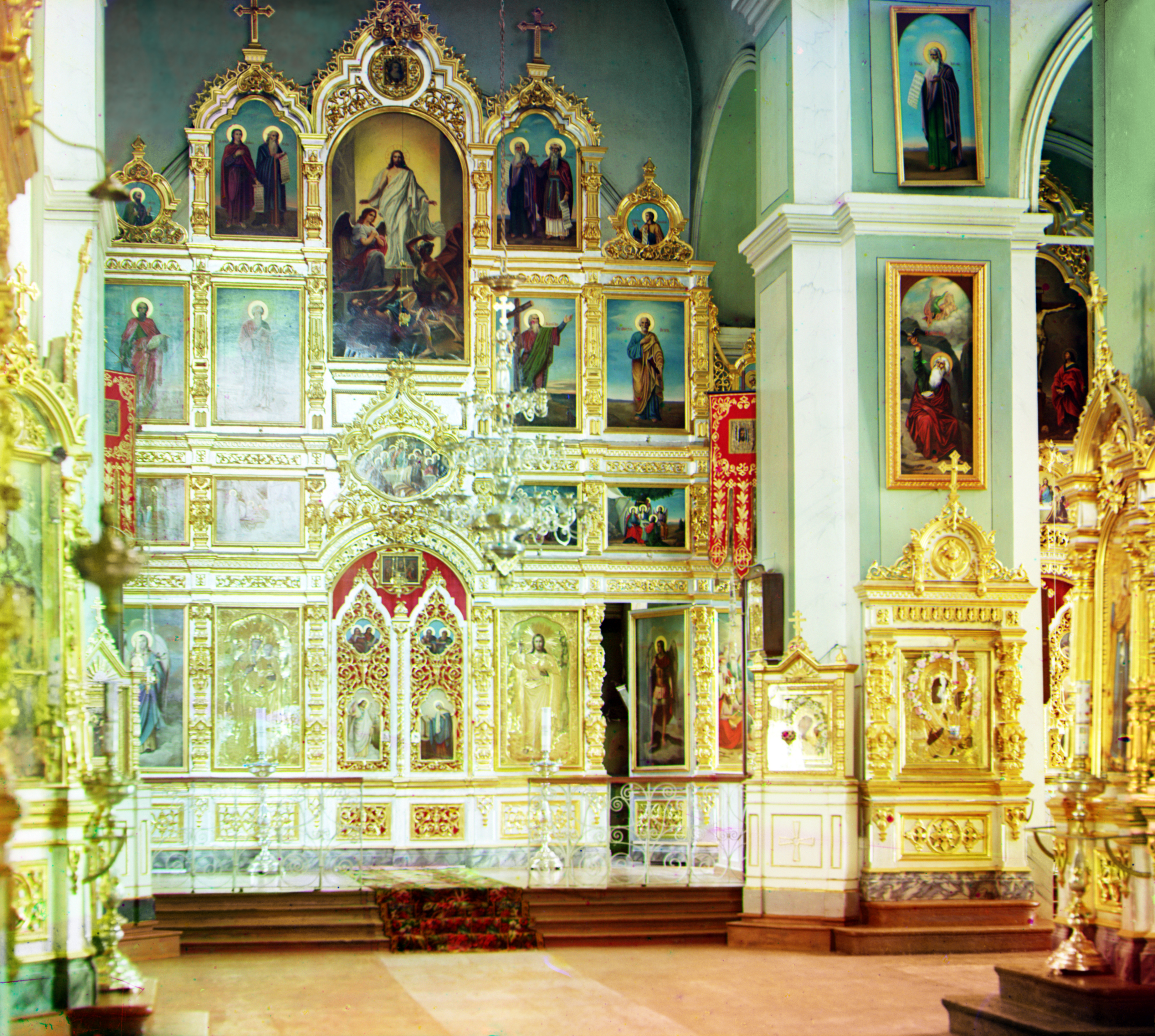 Iconostasis in the summer cathedral. (Leushinskii Monastery, Leushino, Russian Empire). High res.